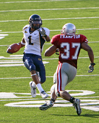 DeSean Jackson photograph taken in 2006 against Washington State.